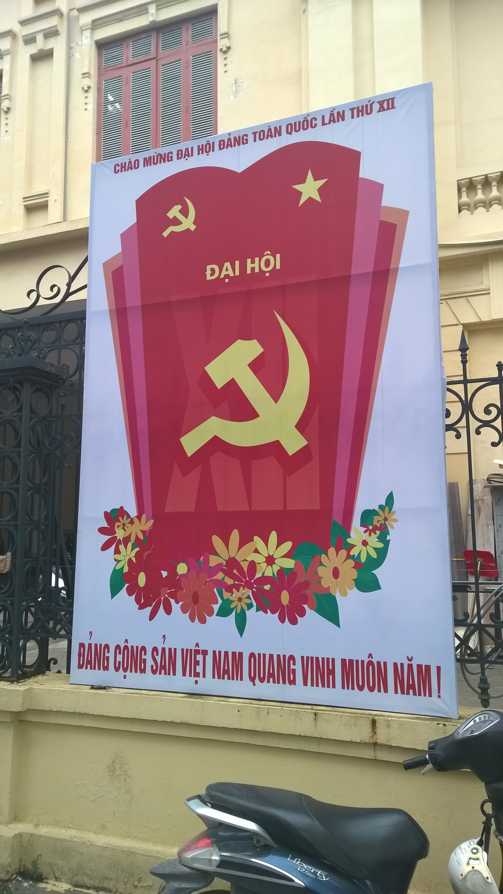 A poster celebrating the 12th meeting of the Politburo of the Communist Party of Vietnam.